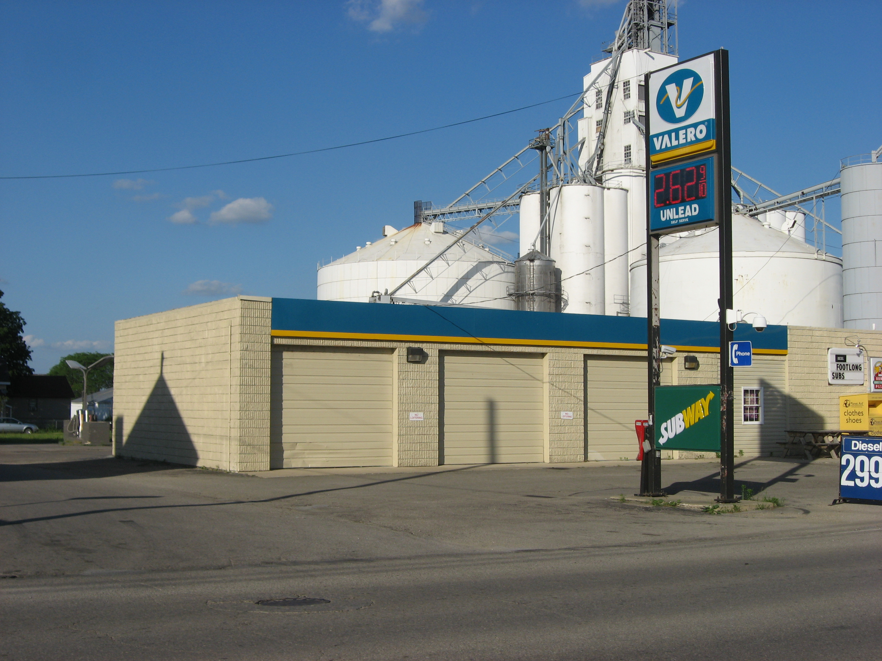 Site of the former Hamer's General Store, located at the eastern corner of the intersection of Main (State Route 29) and Oak Streets in Mechanicsburg, Ohio, United States. The store remains listed on the National Register of Historic Places, despite having been destroyed.